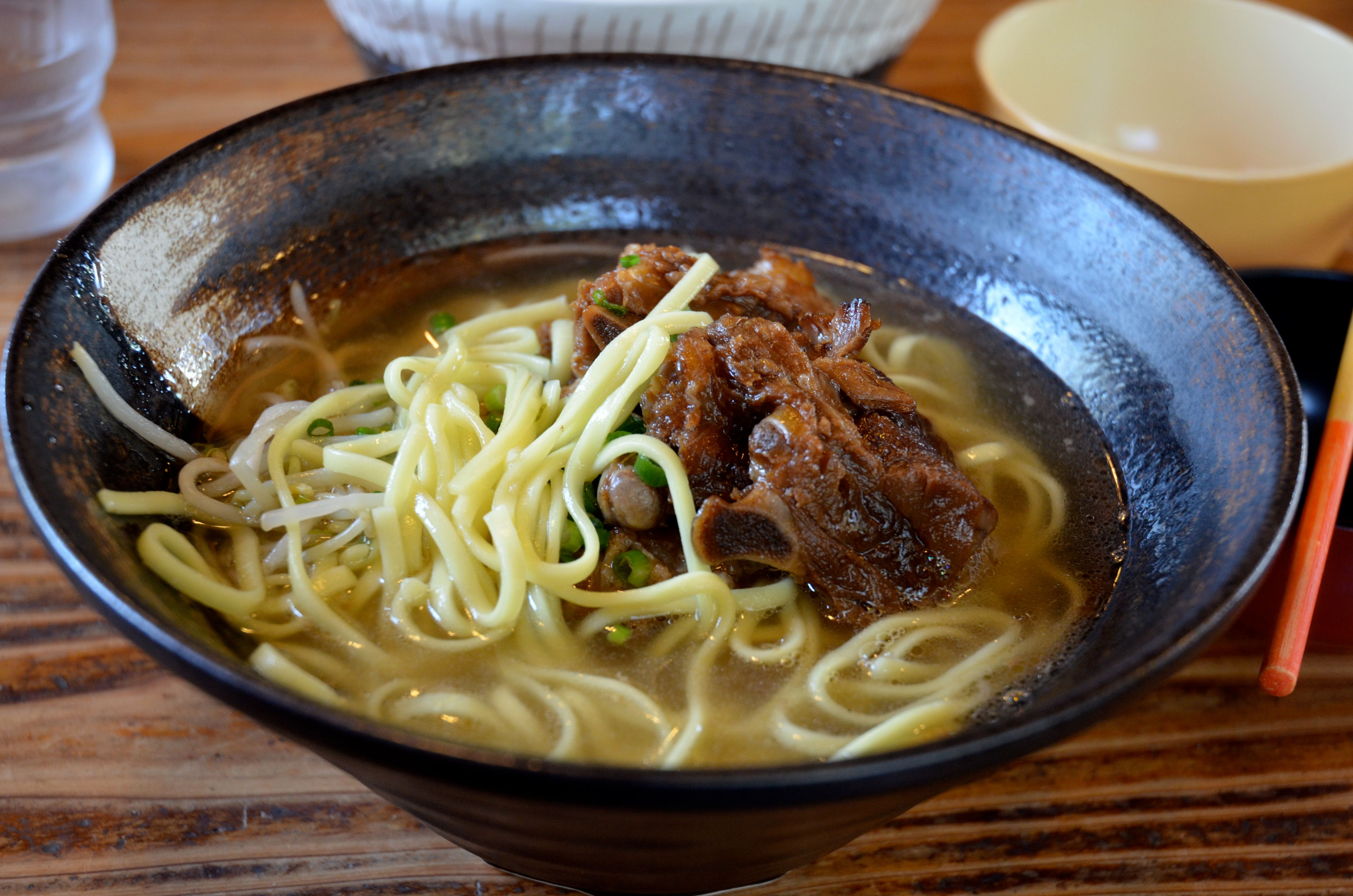 Soki soba (noodles with stewed pork spare ribs) at Takenoko, Taketomi, Okinawa, Japan.